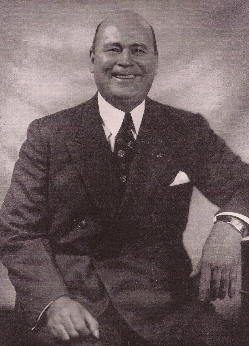 Retrato del presidente de Venezuela entre 1941-1945, general Isaías Medina Angarita.